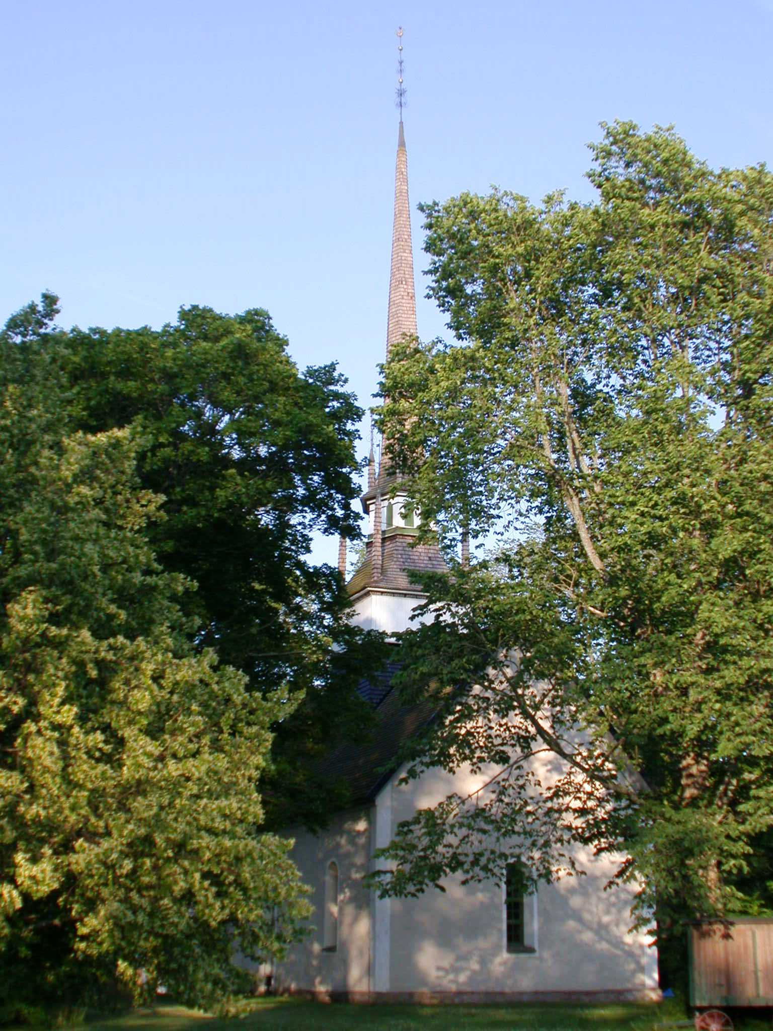 Brunneby church, Motala, Sweden. Photo by Riggwelter, July 12, 2006.